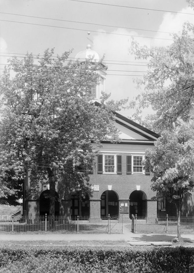 Exterior view of the Madison County Courthouse, U. S. Route 29, Madison, Madison County, Virginia. Courtesy of the Historic American Buildings Survey, Library of Congress, Washington, D. C.